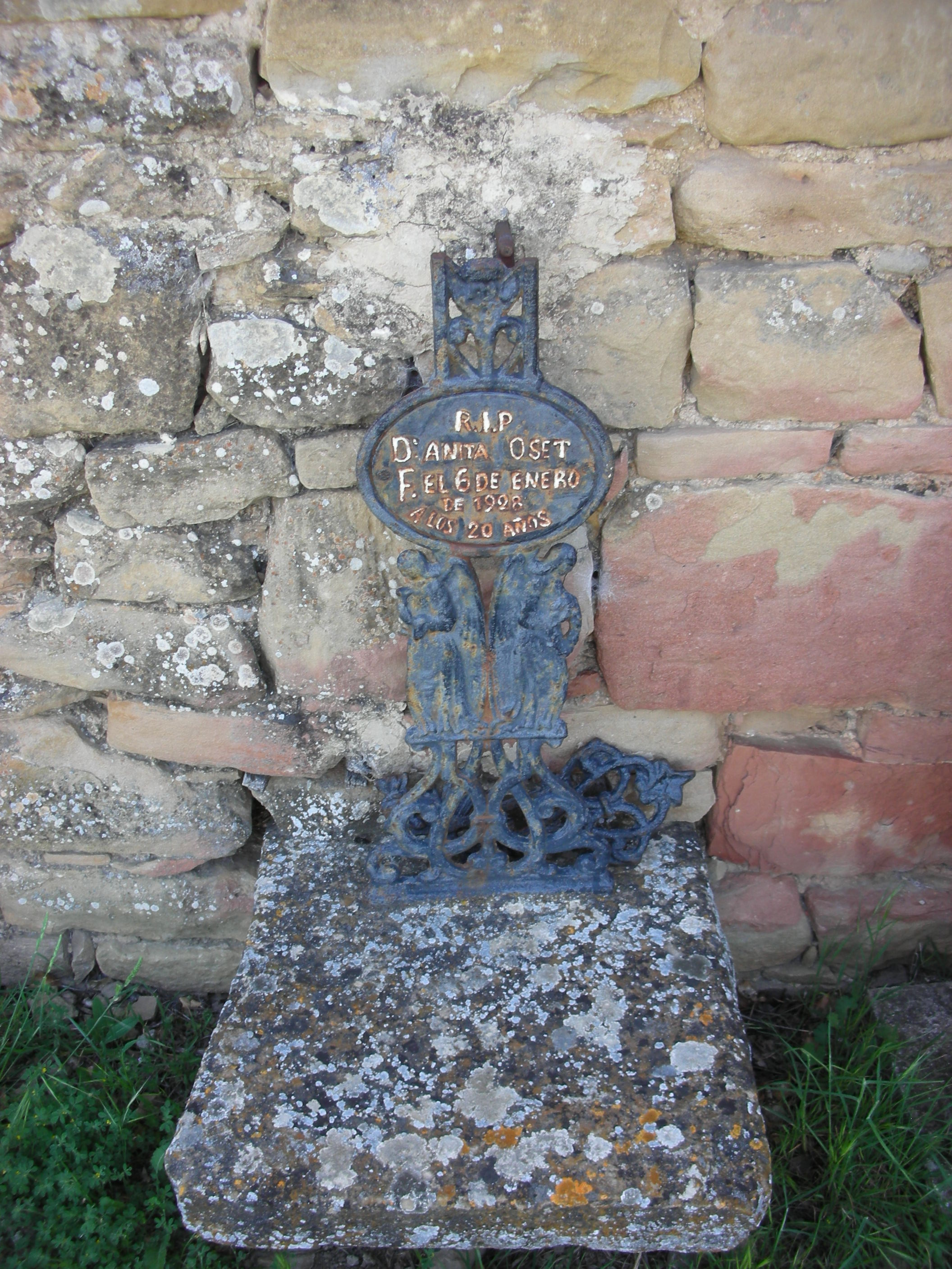 Gravestone in Gallipienzo, Navarre, Spain.